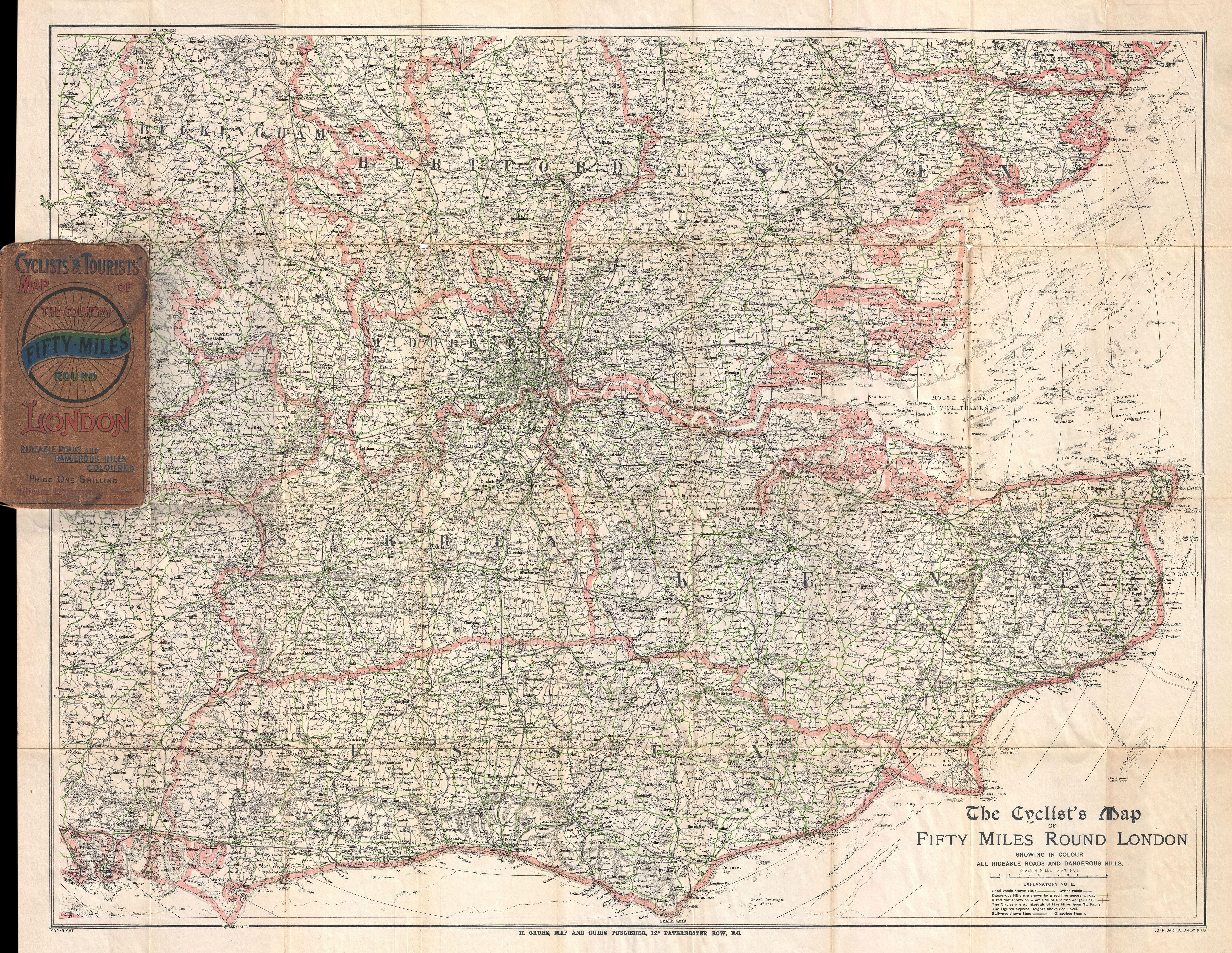 This is J. Bartholomew's c. 1895 cyclist's may of 50 miles around London. Covers the greater London area from Ricester in the northwest eastwards and southwards as far as the coast. Includes the counties of Buckingham, Hertford, Essex, Middlesex, Surrey, Kent, and Sussex. By the end of the 19th century bicycling in London (and vicinity) had evolved beyond recreation to become a practical way to get from place to place. Cyclist's maps, like this one, began appearing around 1870 and continued to be published well into modern times. Map shows town, rivers, forests, parks, roads and all practical bicycling routes. Mileage from London is noted in ten mile increments. Curiously for a cycling map, this map also shows various offshore shoals, sandbars, and shipping routes. Attached to an extremely attractive decorative binder.